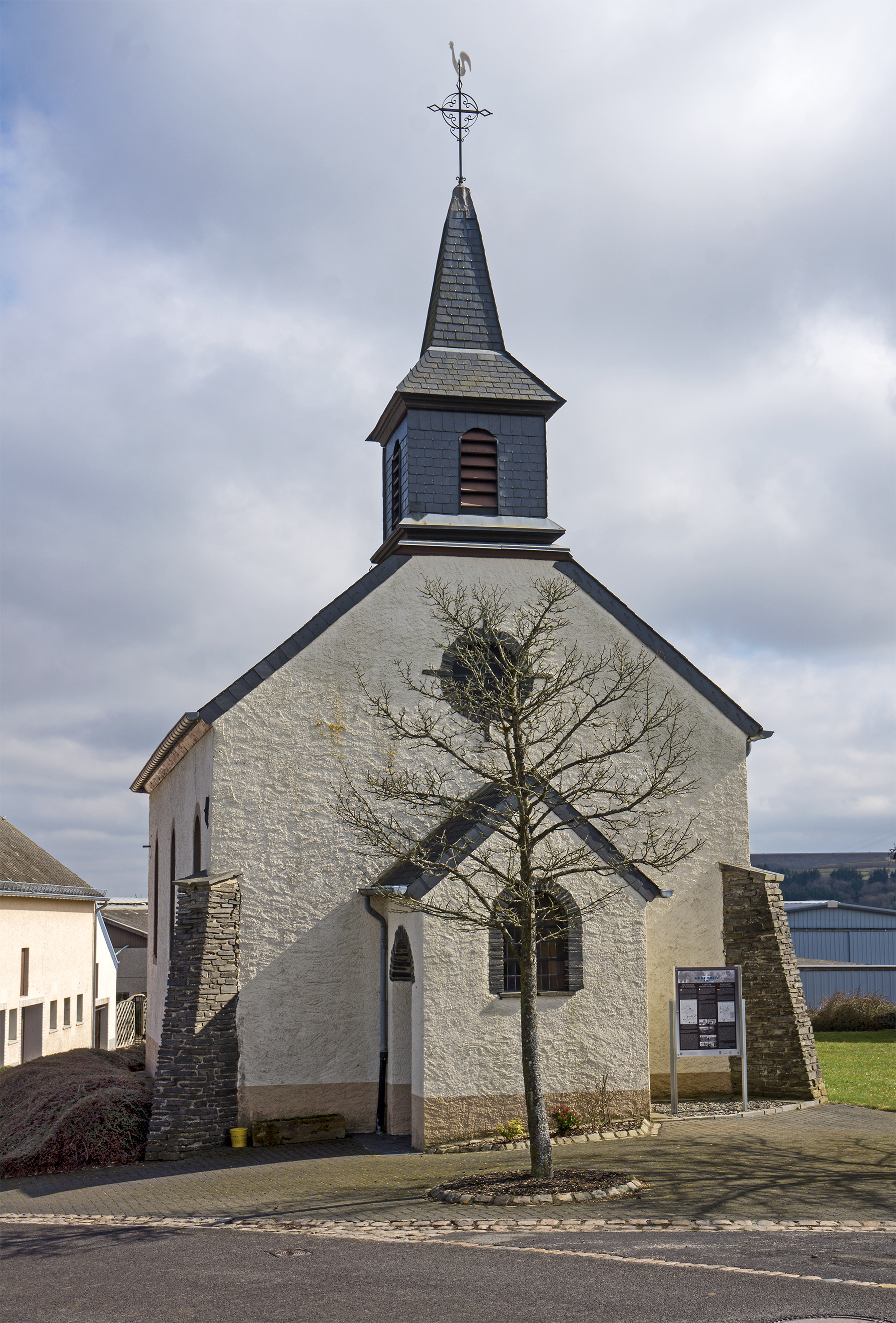 Chapel of Putscheid